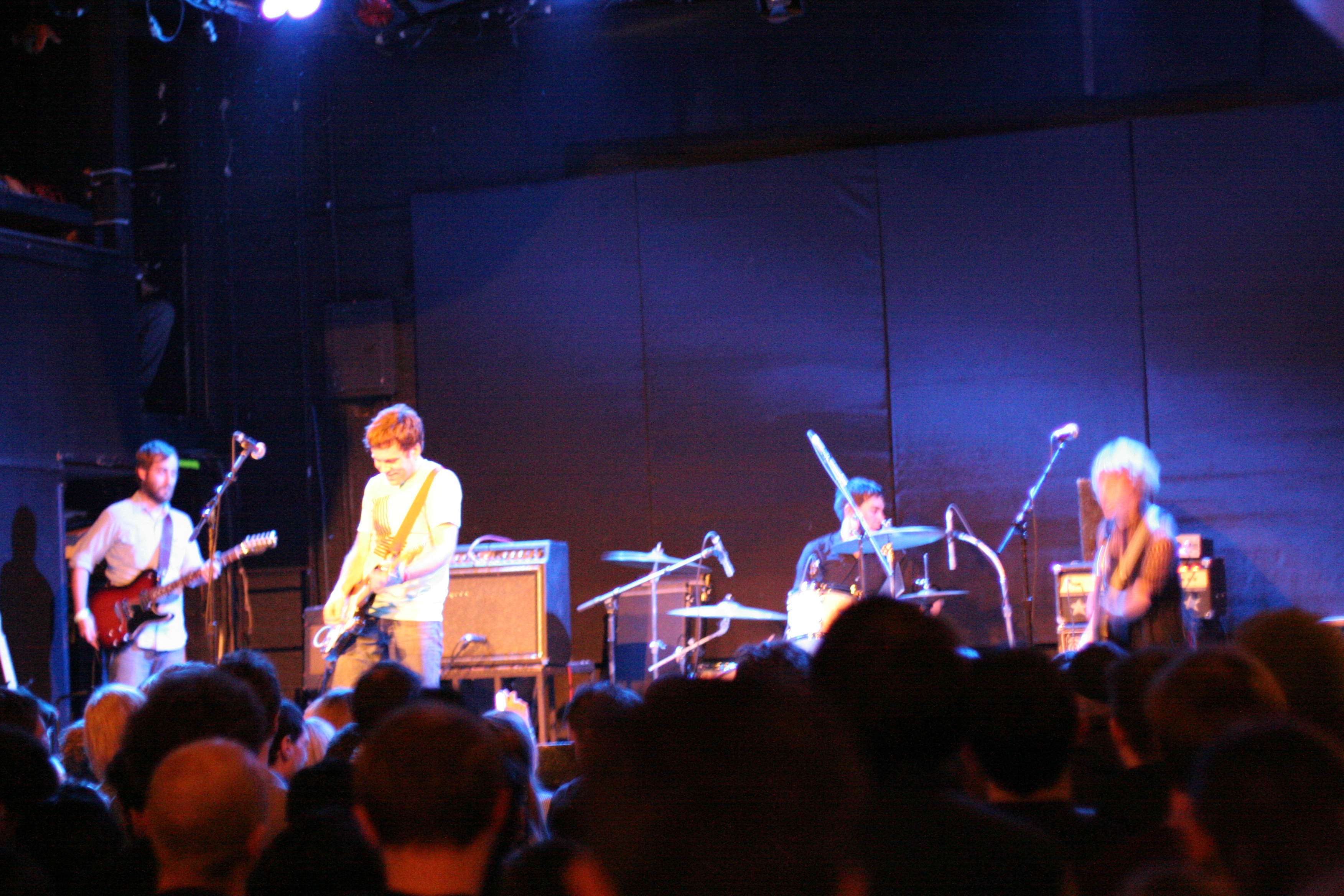 Rainer Maria perform their farewell show at the Bowery Ballroom, New York City, on December 16, 2006.